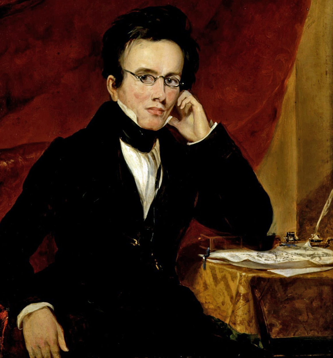 Sir John Goss, by unknown artist, circa 1835.